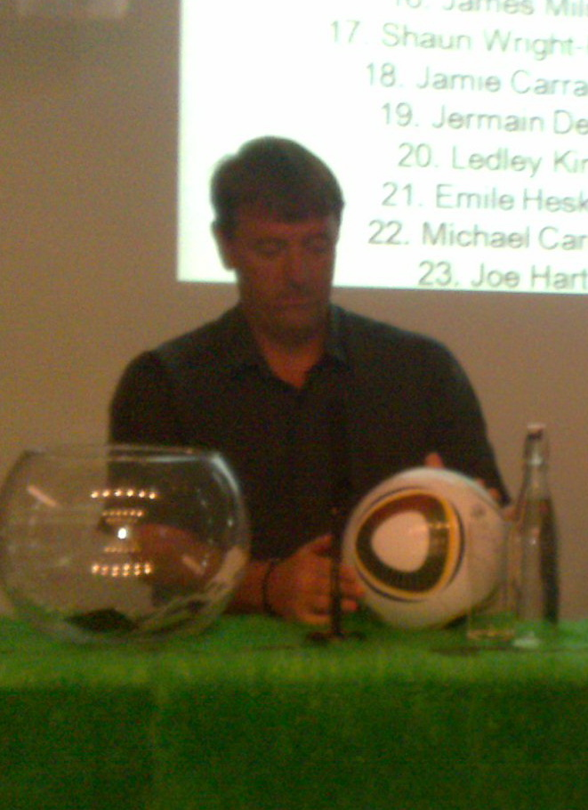 Matthew Le Tissier